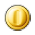 A coin in video game (NewtonAdventure), by devnewton